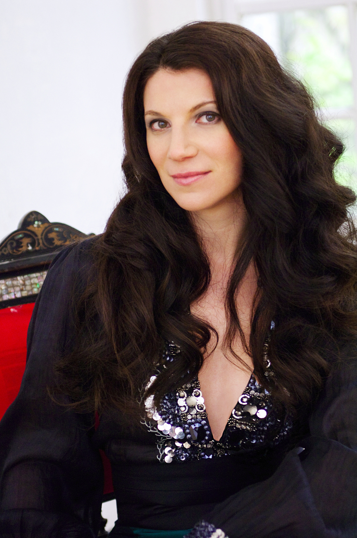 Portrait photograph of austrian singer Elisabeth Kulman taken on May 16th 2010 at castle Haggenberg Lower Austria.